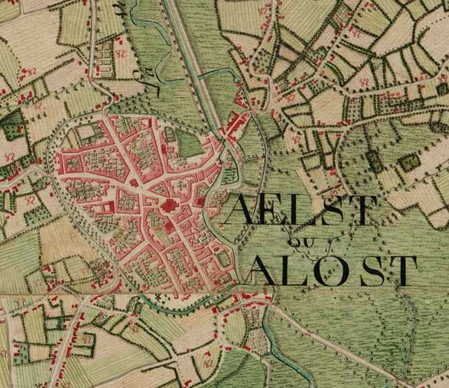 Aalst (Belgium) on the Carte de Ferraris